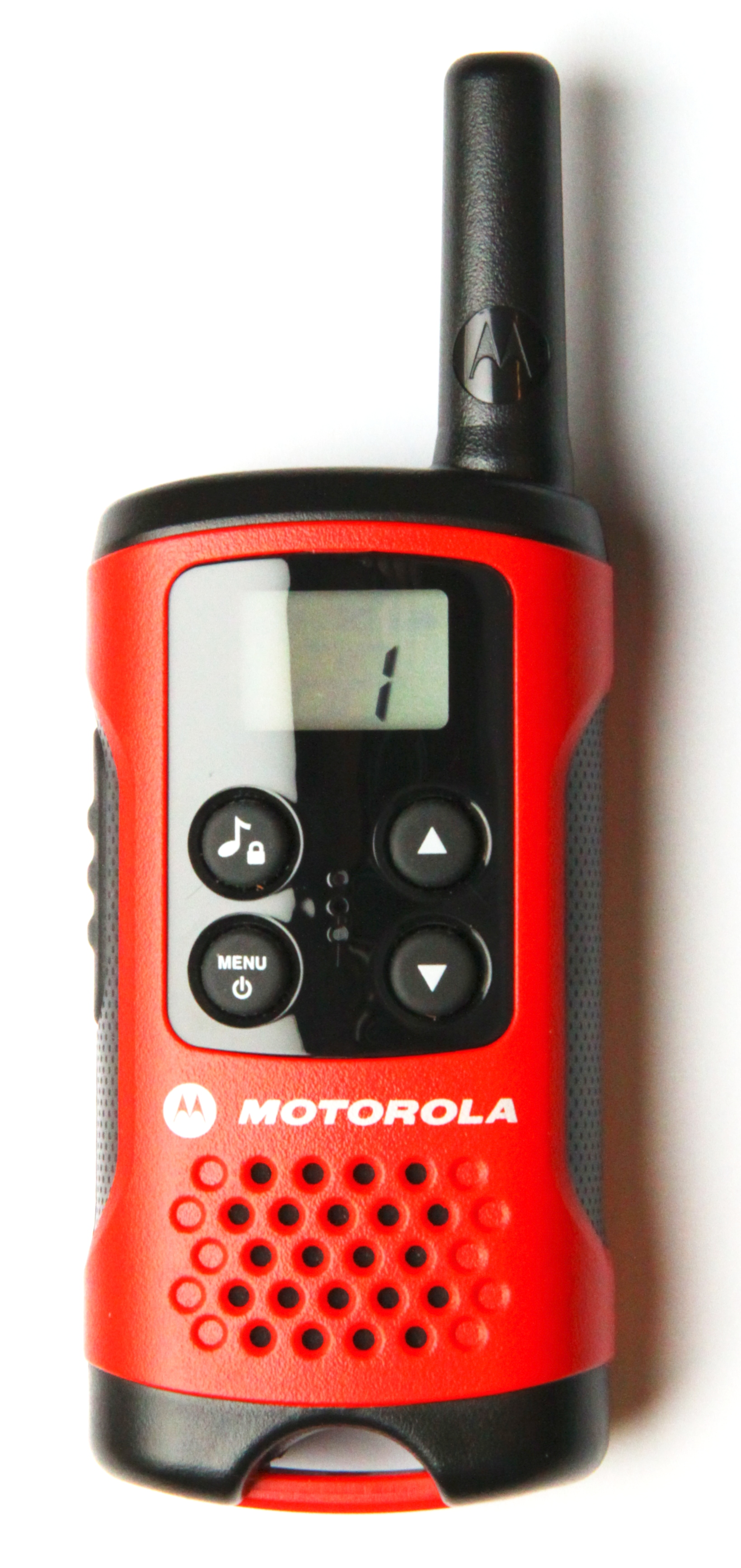 Motorola TLKR T40 PMR446 radio, tuned to PMR channel 1 (446.00625 MHz)